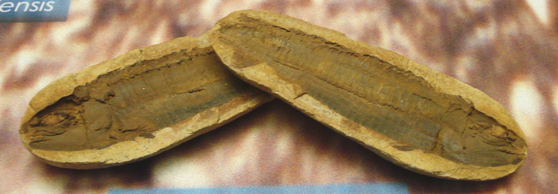 Fossil of Australosomus, an extinct fish